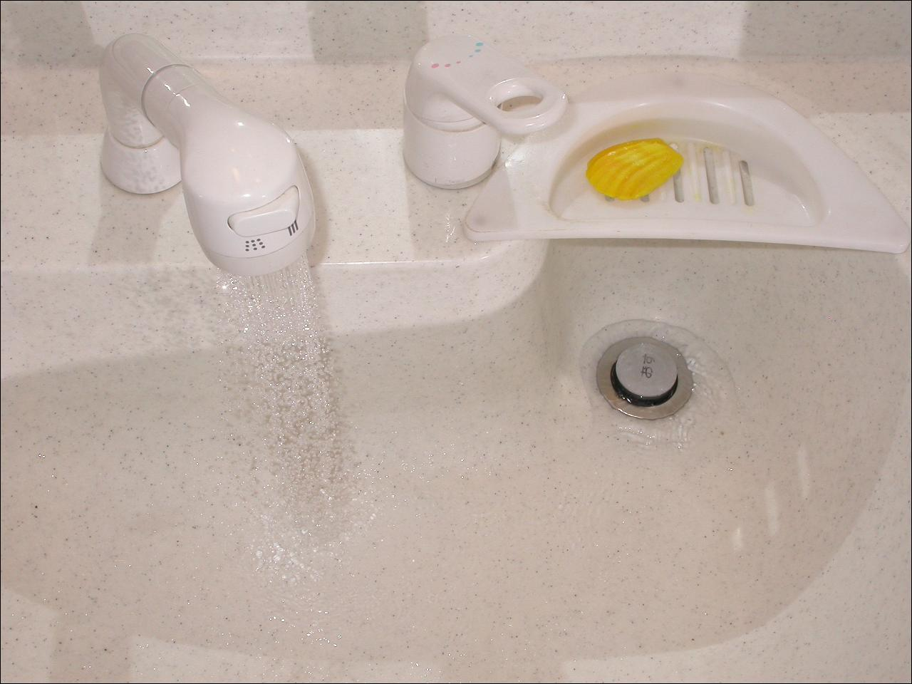 Flash-freezing the flow and pearls of water with two slaves. Re-creating one of my first digital photo experiments with flash from the late '90s (when I had only the built-in flash). The close-ups almost looked the same...